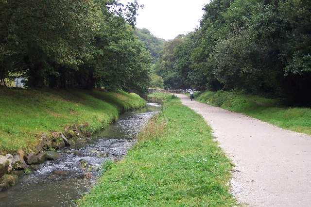 St Austell River and Cycle Path. The St Austell River runs south from that town to the sea at Pentewan. In 1826 a horse-worked tramway was built alongside the river as part of a plan to develop the harbour at Pentewan. The course of the tramway is now occupied by an excellent cycle path. This scene shows the river and cycle path near Nansladron.